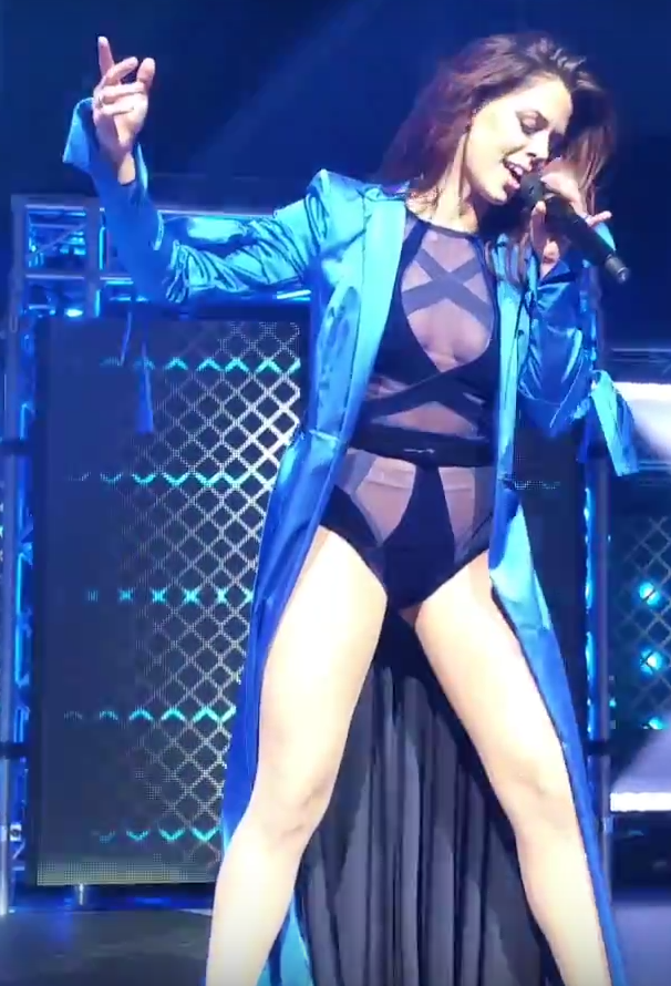 German Pop-Schlager-Singer Vanessa Mai during her "Regenbogen Tour" at Rosengarten Mozartsaal, Mannheim, Germany (17th May 2018).